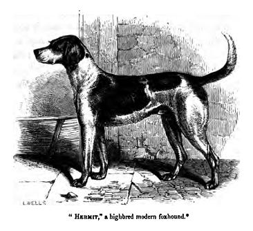 "A highbred modern foxhound."